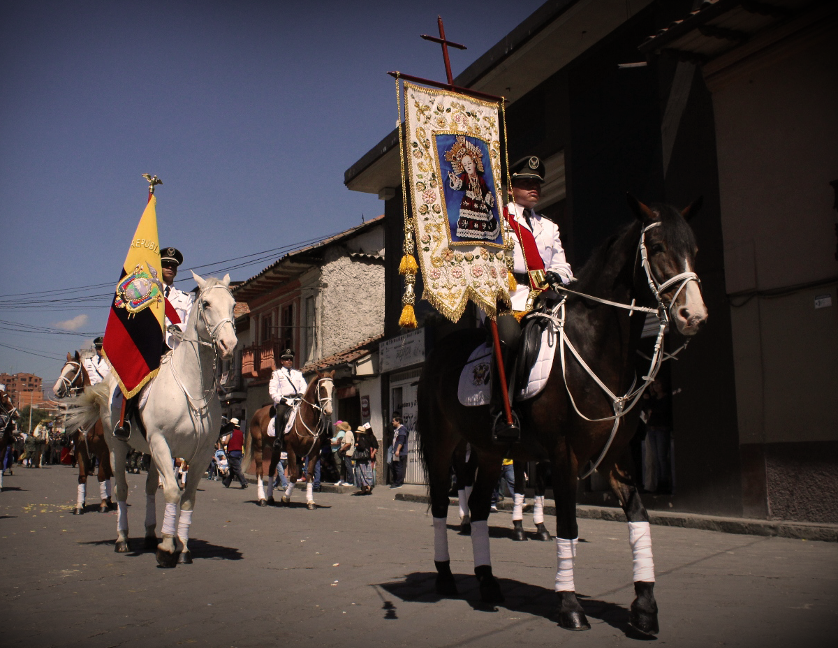 National Police escorts during the 2013 Pase del Niño Viajero in Cuenca, (Ecuador).